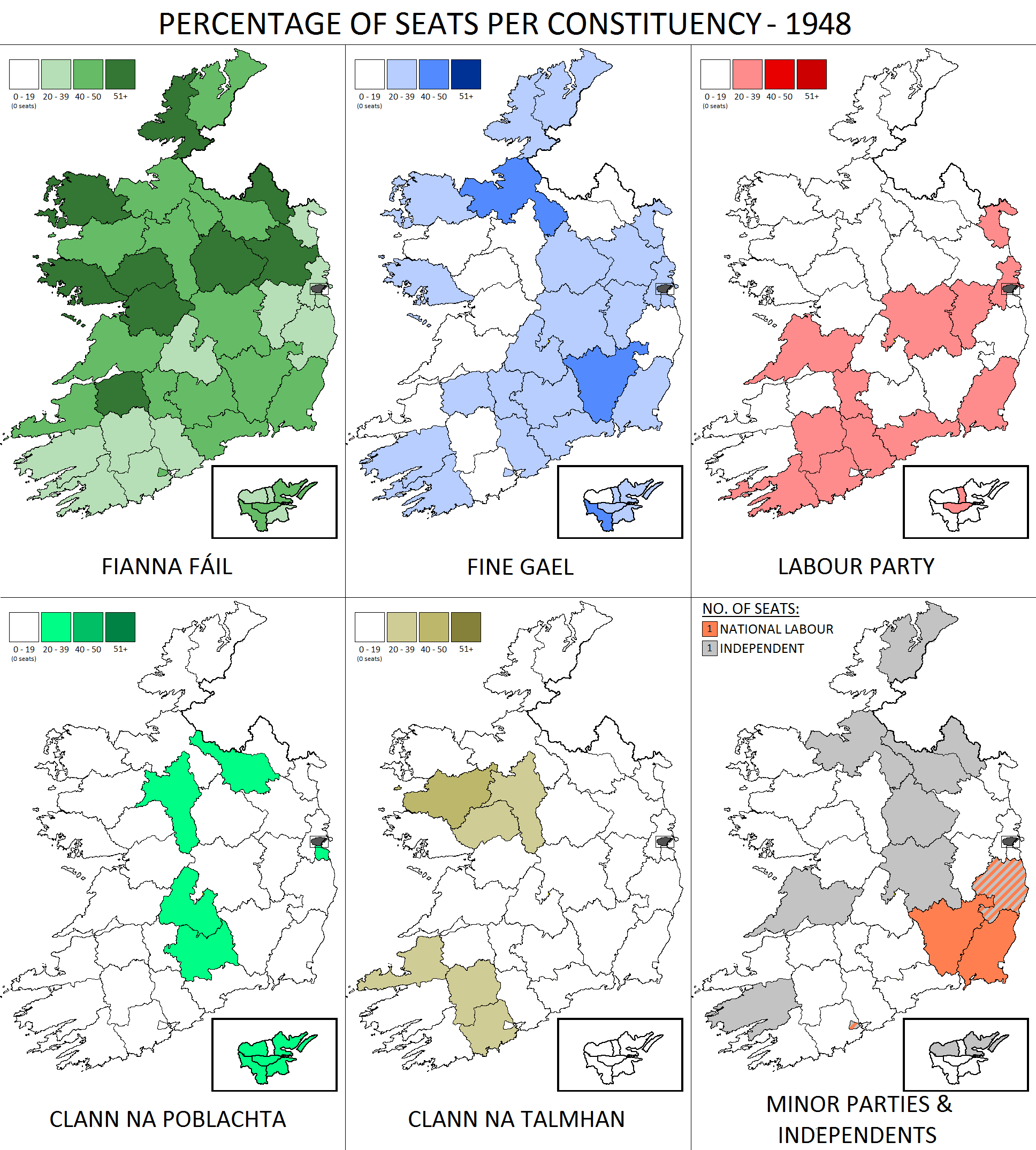 Graphical representation of the 1948 Irish general election results. Created by myself using data from Wikipedia and literary sources.